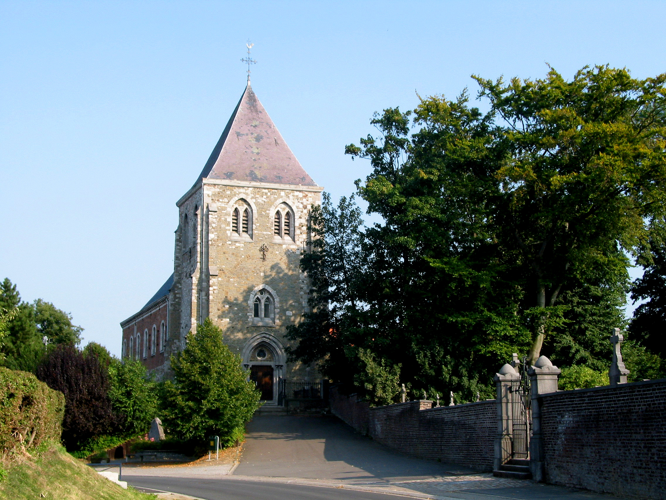 Fexhe-le-Haut-Clocher (Belgium), the St. Martin's church (XII/XVIIth centuries).